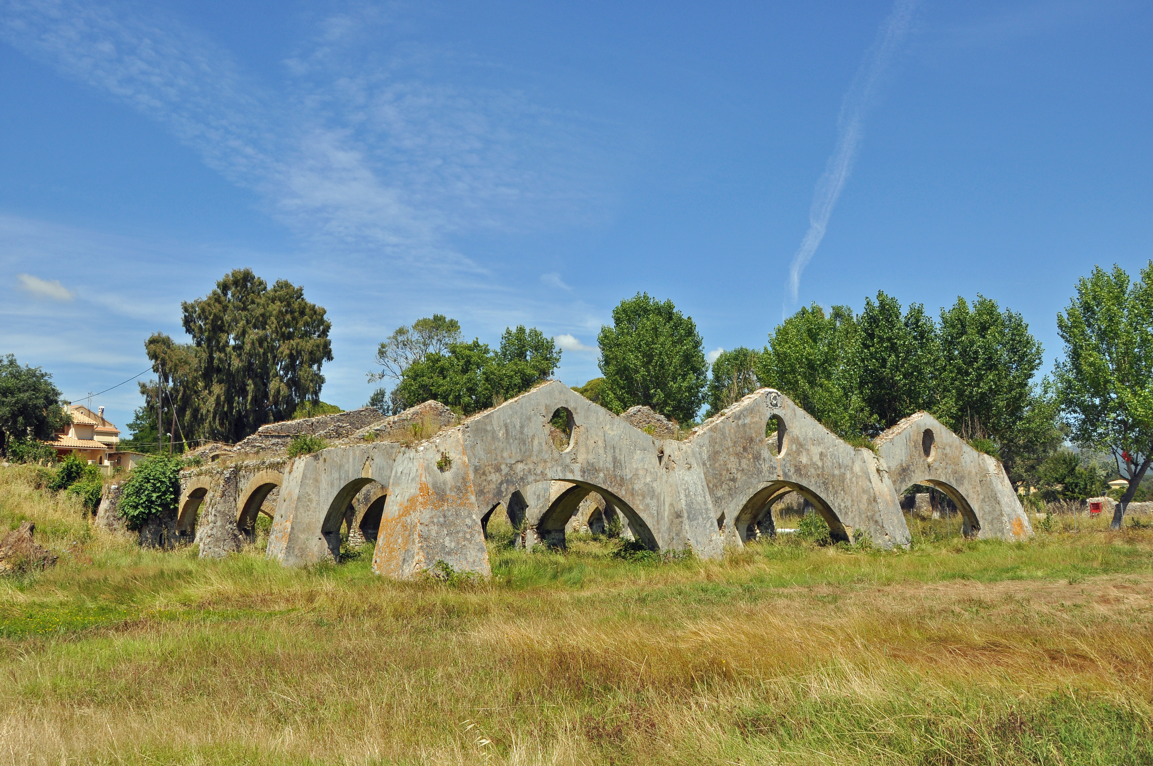 Gouvia (Corfu, Greece): ruins of the former Venetian shipyard